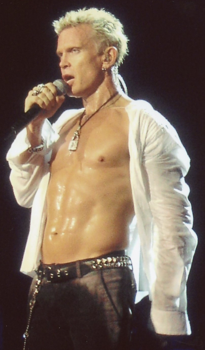 Billy Idol. Brixton Academy, London.